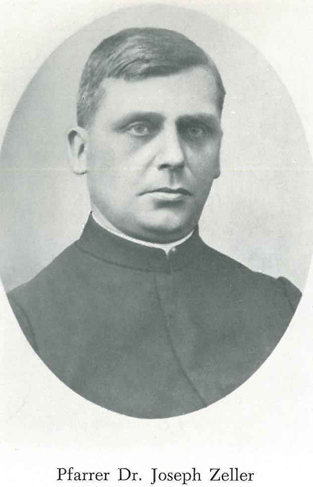 Joseph Zeller (1878-1929), catholic priest and ecclesiastical historian of Württemberg